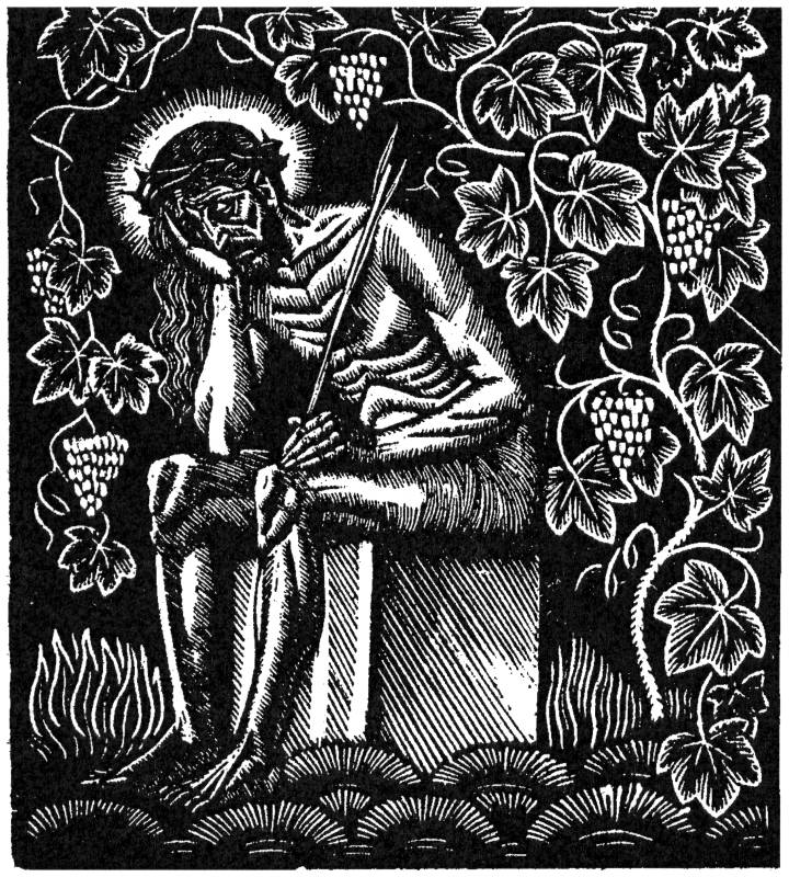 Man of sorrows, wood engraving , Muzeum Żup Krakowskich w Wieliczce